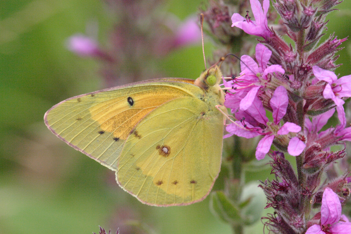 Orange Sulphur (Colias eurytheme) Scarborough, Ontario